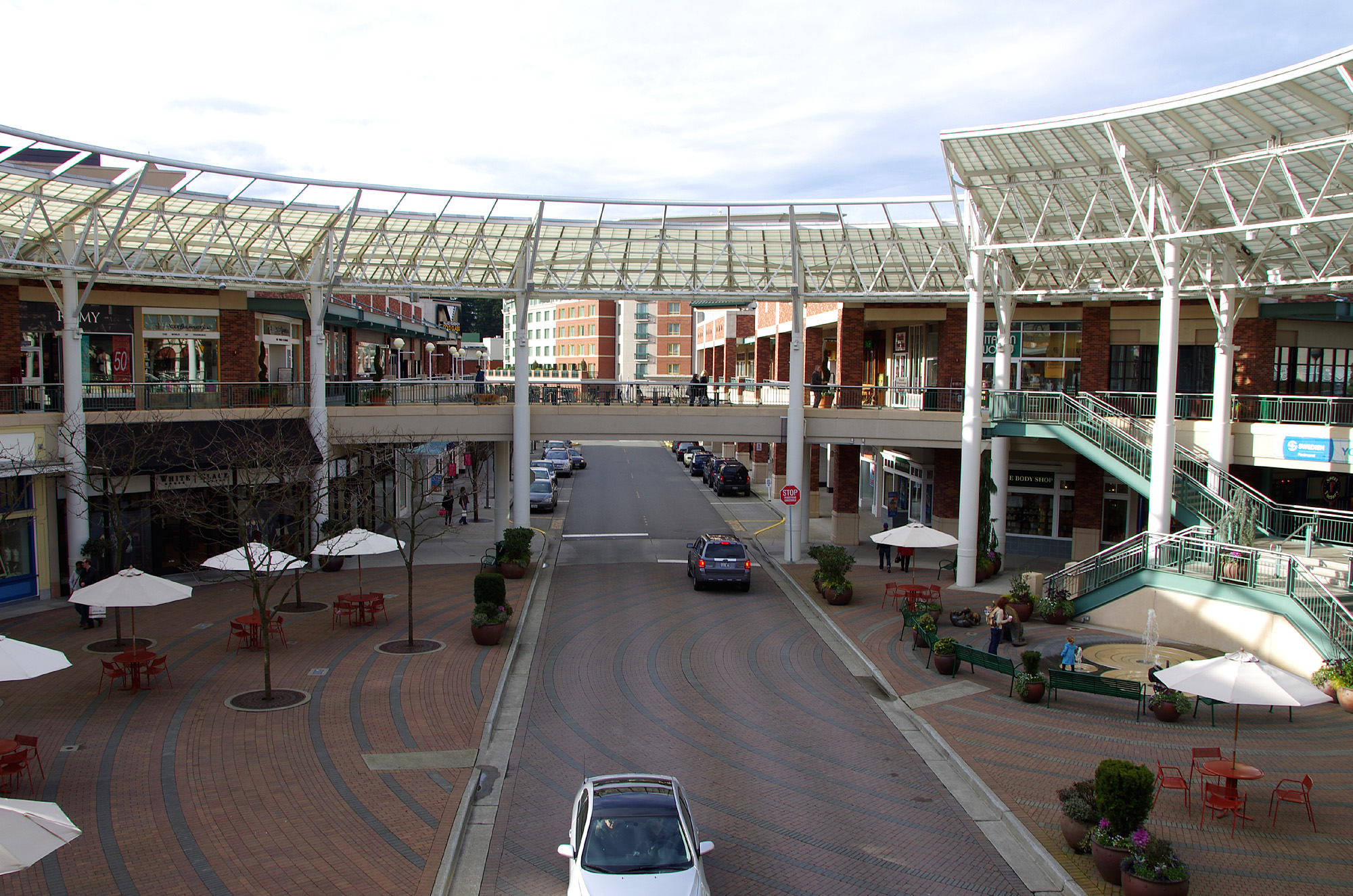 Buildings of Redmond Town Center shopping mall